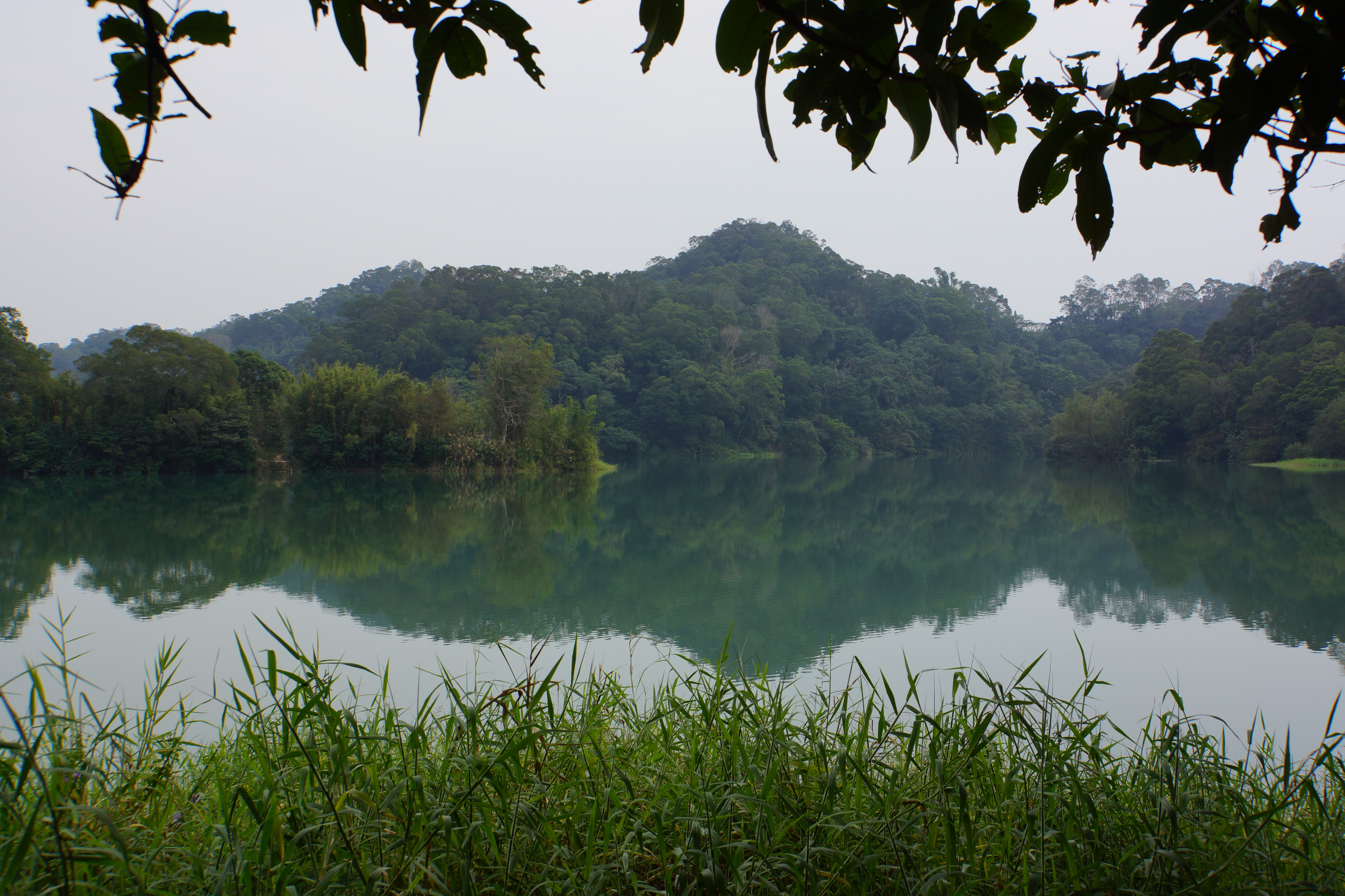 Baoshan Reservoir 寶山水庫